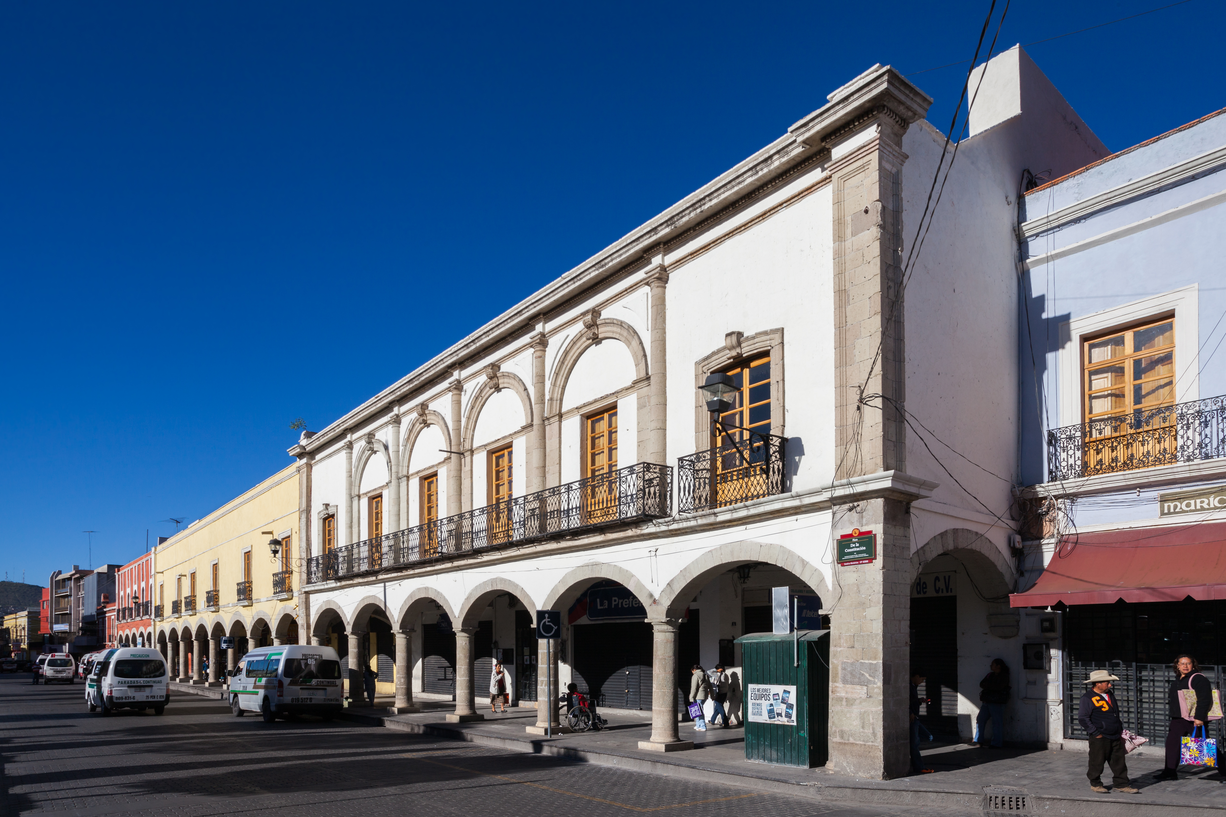 Plaza de la Constitución, Pachuca, Hidalgo, Mexico